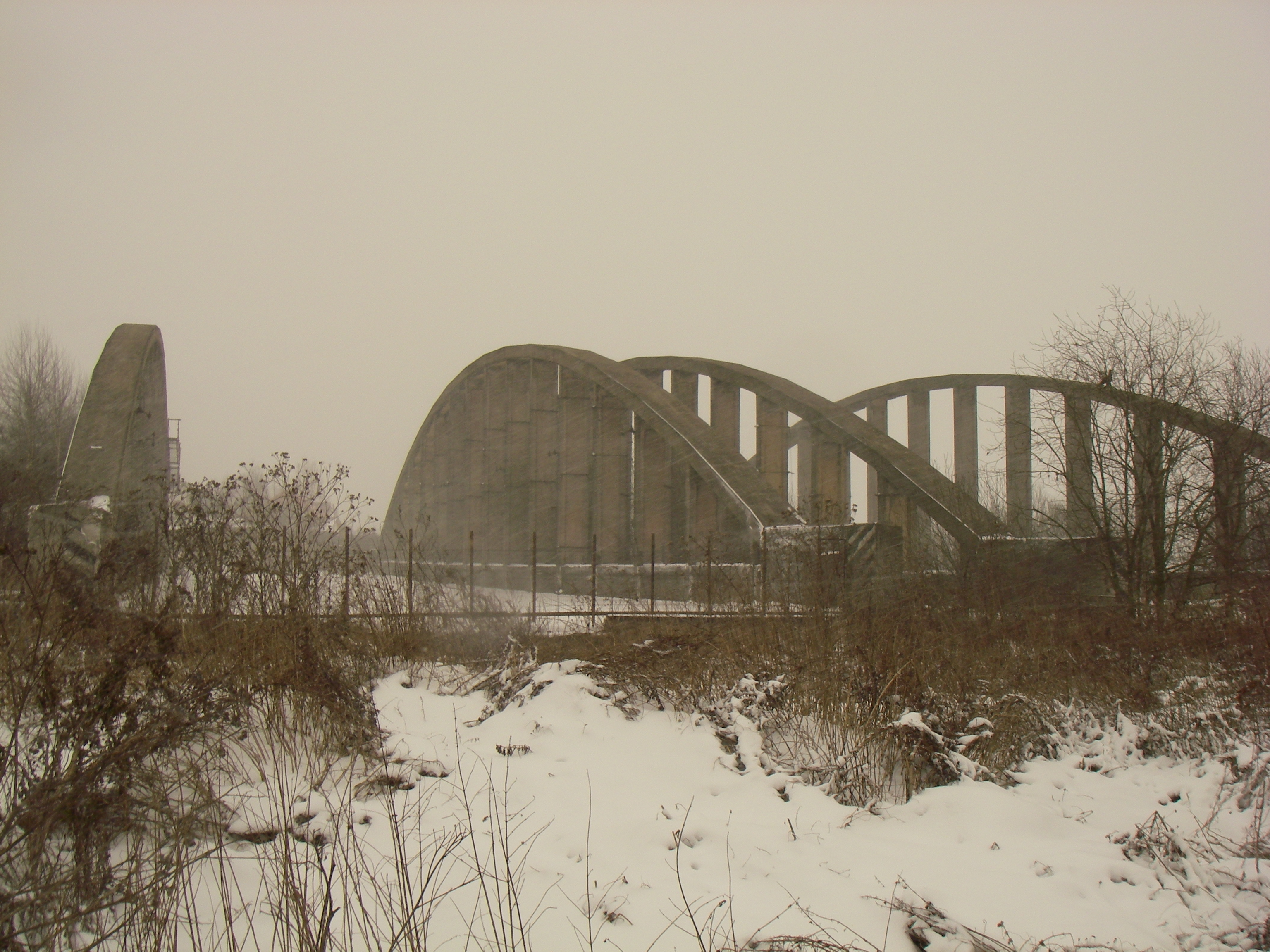 Old Volodarskiy bridge